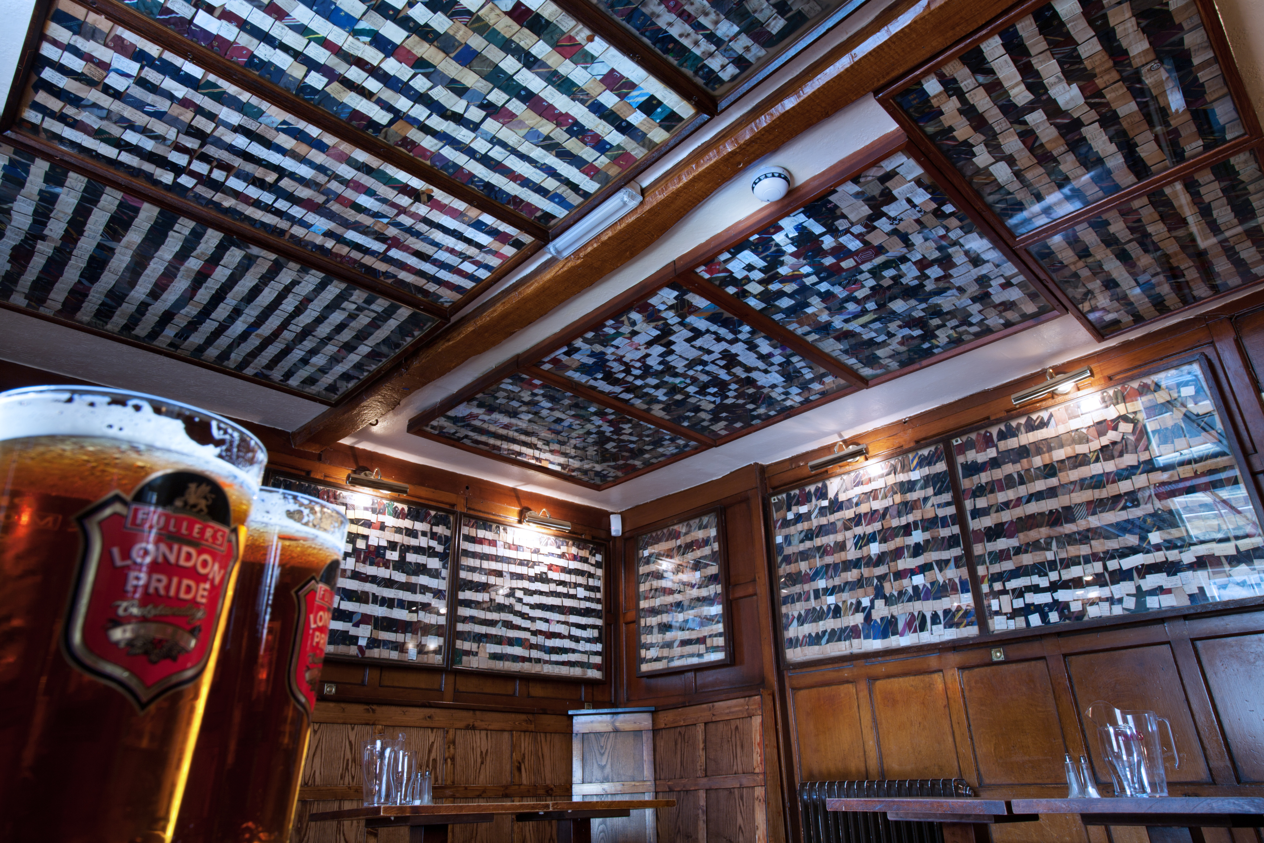 Interior of the Bear Inn, Alfred Street, Oxford, England, showing part of the pub's collection of ties.